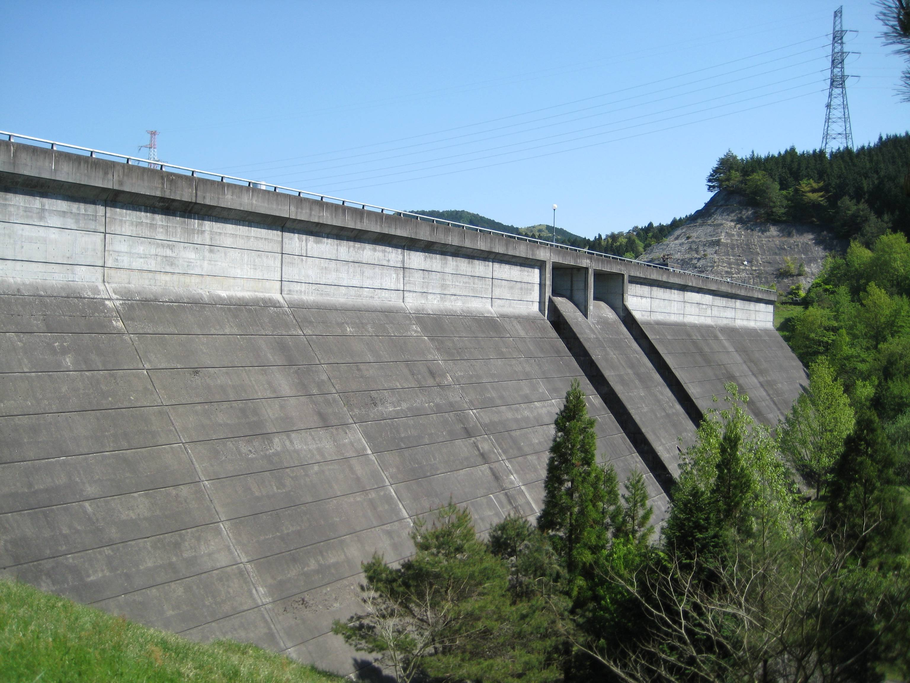 Tominaga Dam.